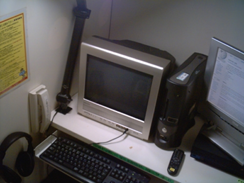 Internet_cafe Tokyo japan